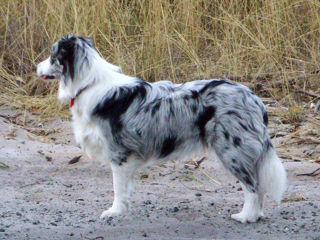 A 8-month-old female blue merle Border Collie named Willow. Photo taken in Western Australia.